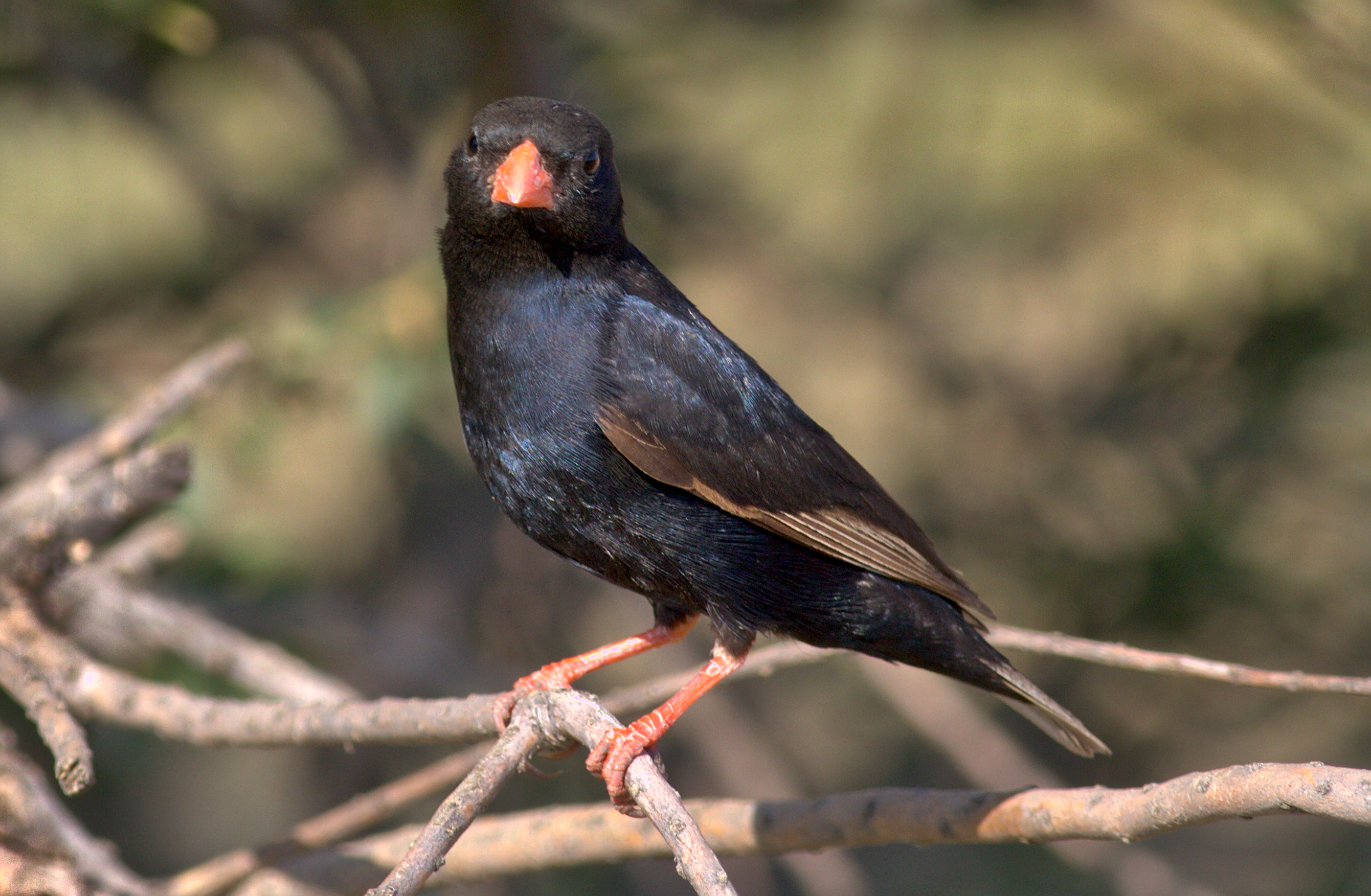 Village indigobird, Vidua chalybeata, at Mapungubwe National Park, Limpopo, South Africa (male)